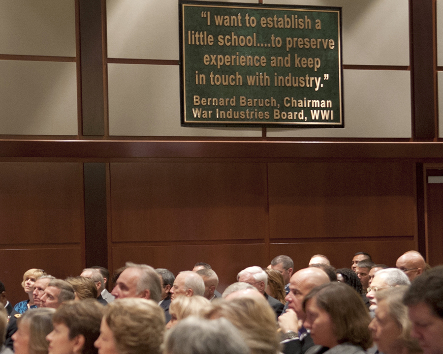 Attendees listen to remarks by Chairman of the Joint Chiefs of Staff Army Gen. Martin E. Dempsey during the Industrial College of the Armed Forces (ICAF) renaming ceremony Sept. 6, 2012, at Fort Lesley J. McNair, D.C. During the event, ICAF was formally renamed The Dwight D. Eisenhower School for National Security and Resource Strategy. The ceremony also marked the 52nd anniversary of Eisenhower’s dedication of the building in 1960.